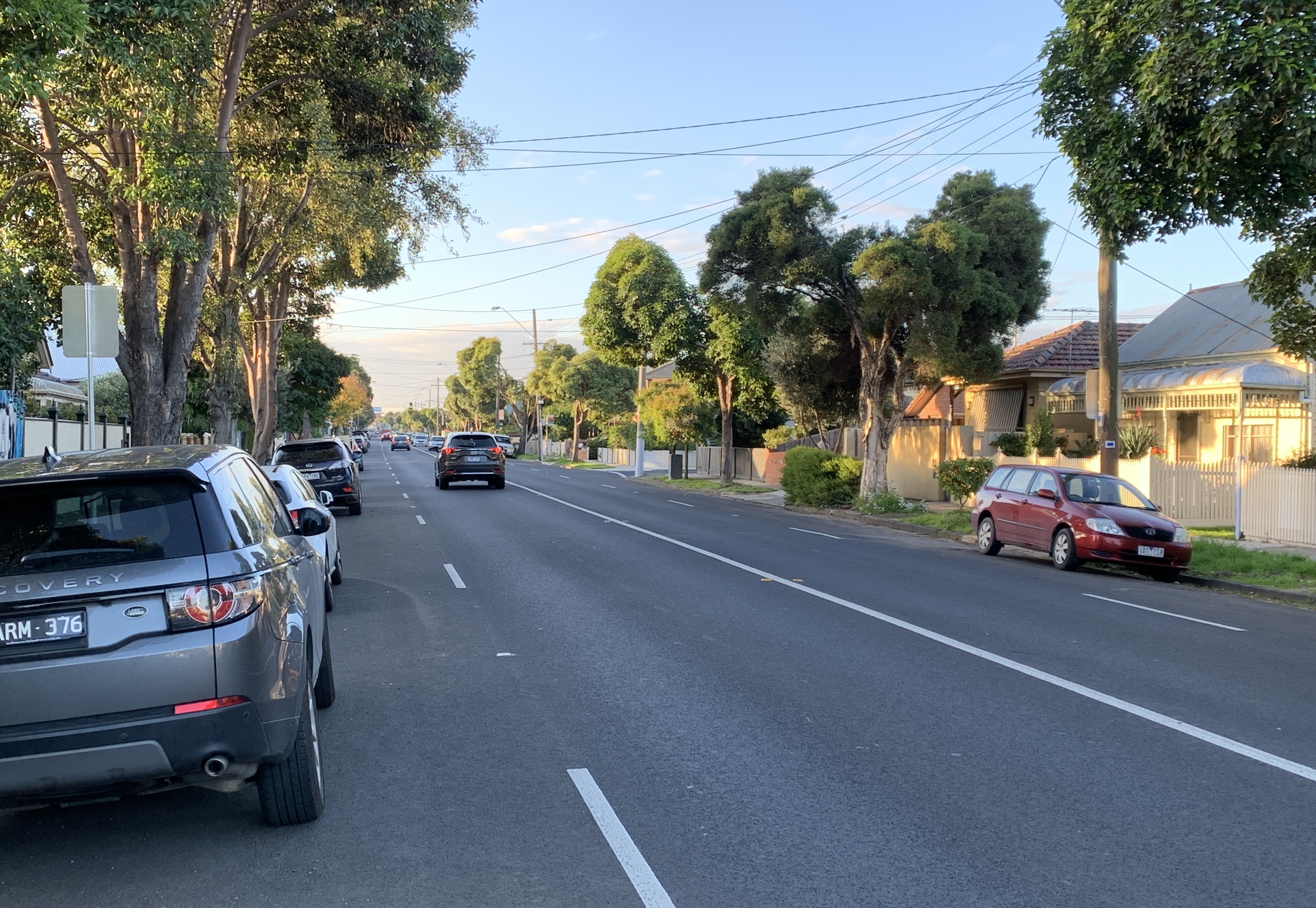 Street scene in Williamstown Road, Kingsville, a suburb in Melbourne, Australia